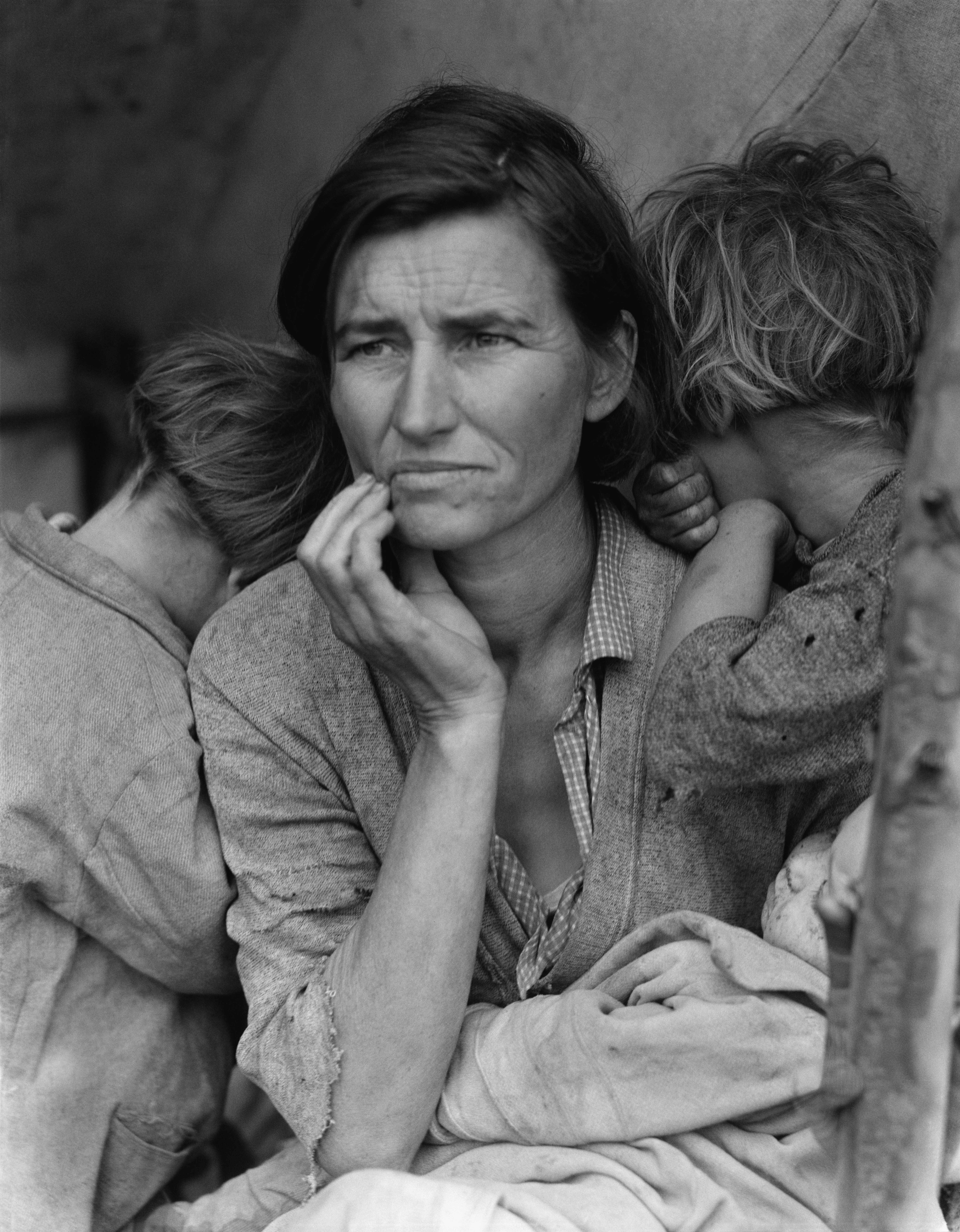 Photograph shows Florence Thompson with three of her children in a photograph known as "Migrant Mother." For background information, see "Dorothea Lange's Migrant Mother' photographs ..."